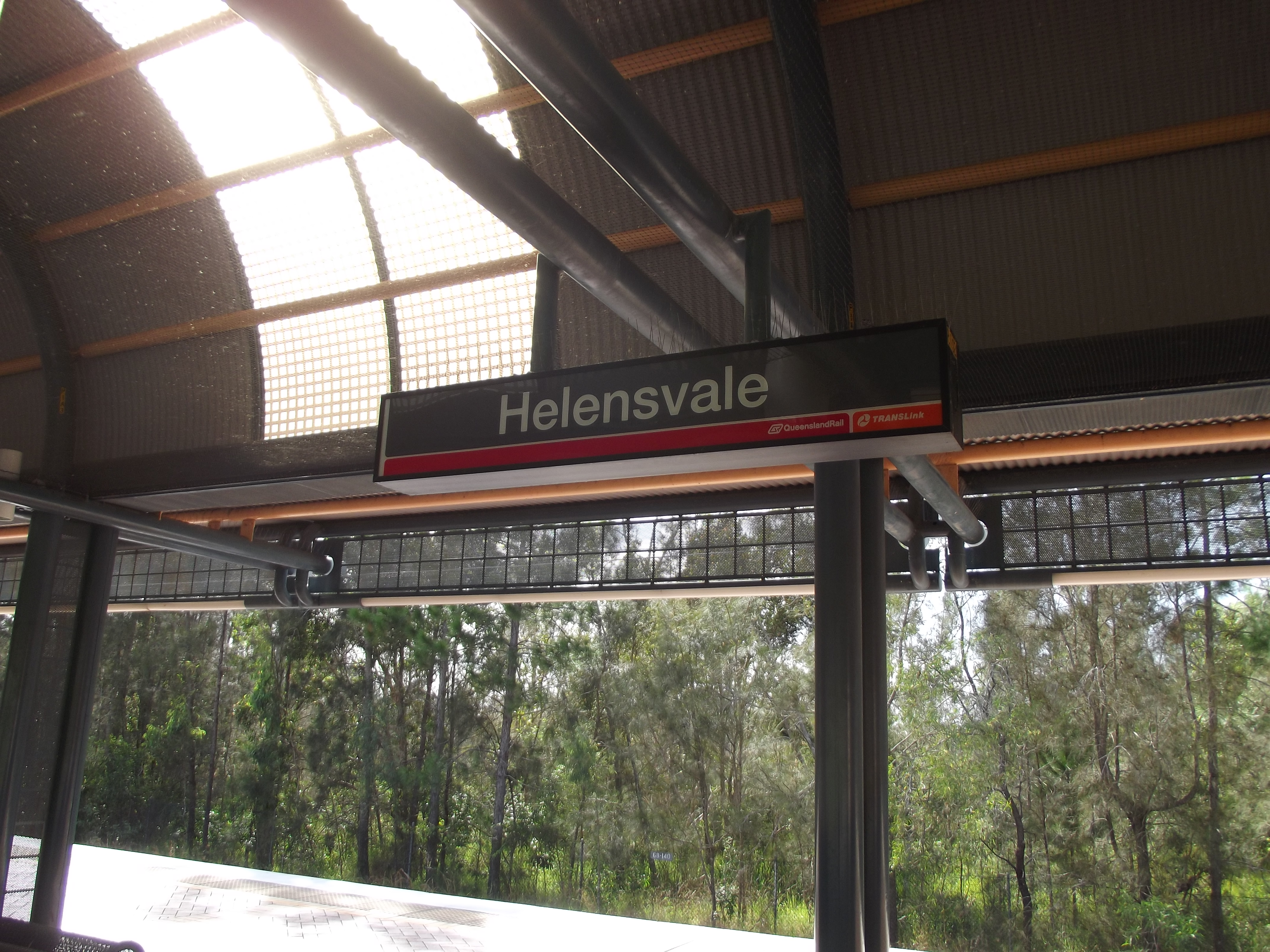 A photo of the Helensvale railway station operated by TransLink, located in Gold Coast, Queensland.